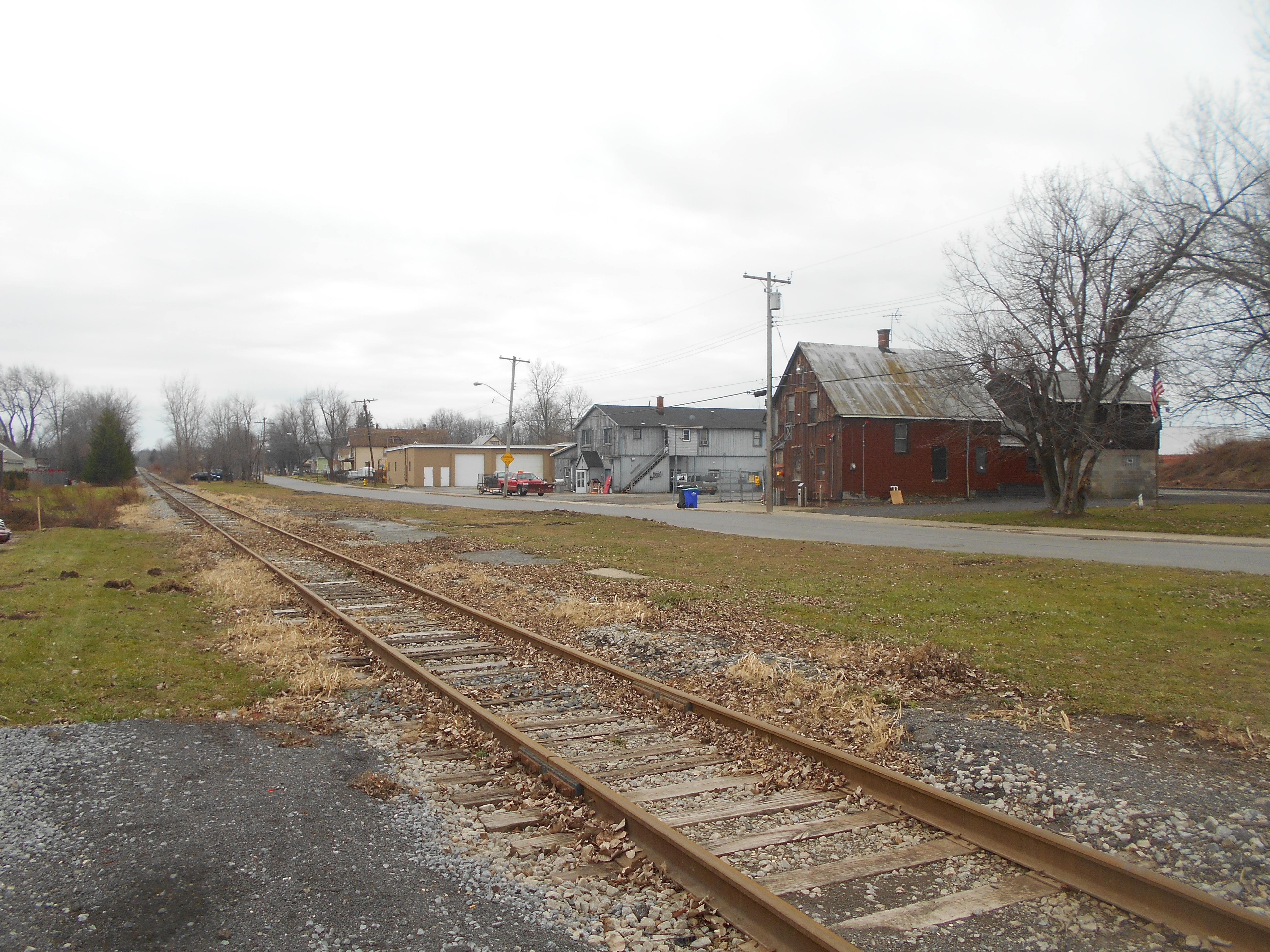 The Blasdell station site for the Buffalo and Southwestern Railroad in Blasdell, New York.